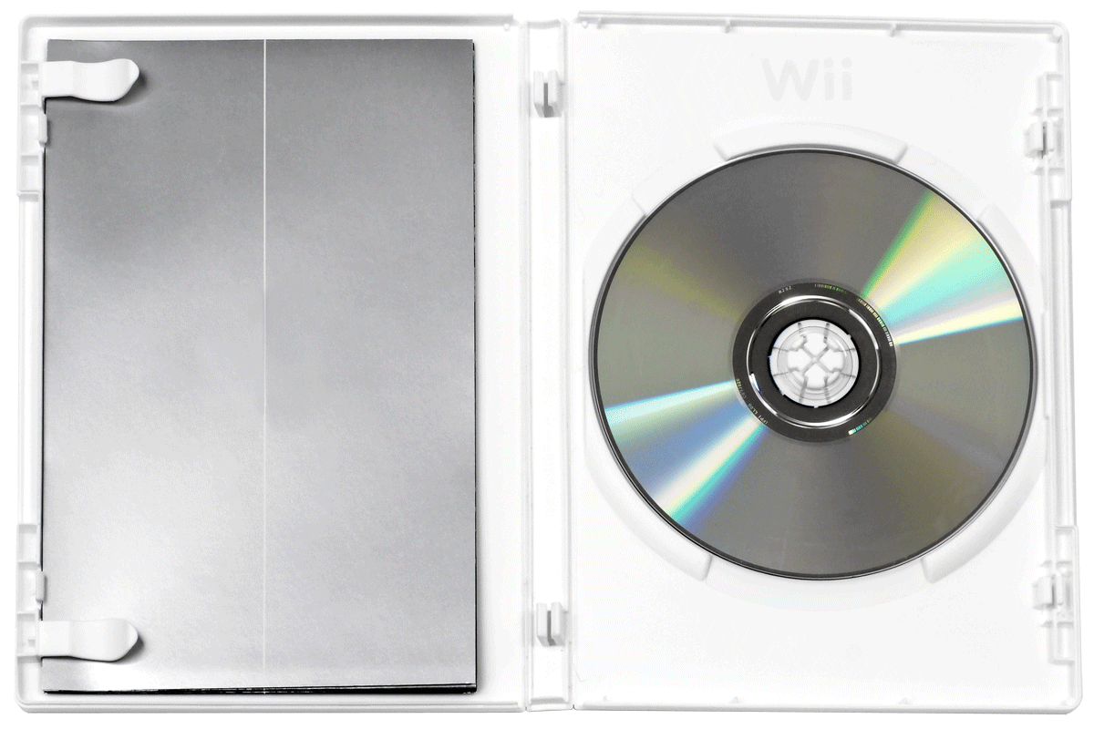 A Wii optical disk in the case.